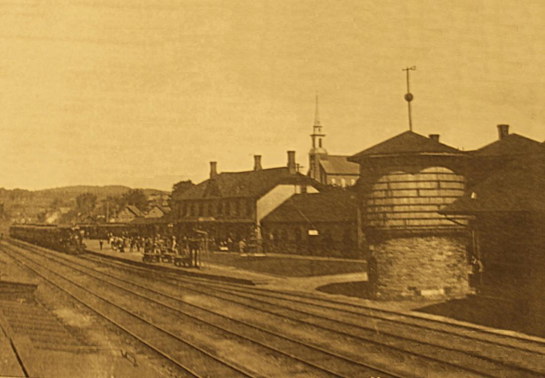 Grand Trunk Station in Richmond, Quebec